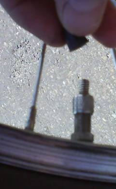 valve with cap, bicycle tyre